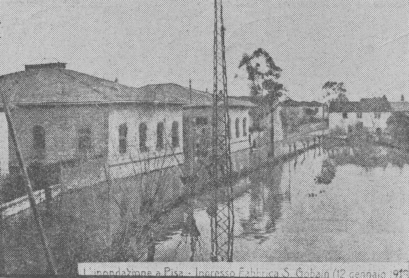 Saint-Gobain glass factory in Pisa during the flood of 1913.